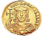 Nicephorus I and Stauracius. 802-811 AD. AV Solidus (4.43 gm, 6h). Constantinople mint. Struck 803-811 AD. NICI-FOROS bASILE', crowned bust of Nicephorus, wearing chlamys, holding cross potent and akakia STAVRA-CIS dESPOIX, similar crowned bust of Stauracius, holding globus cruciger and akakia. DOC III 2b.3; SB 1604.